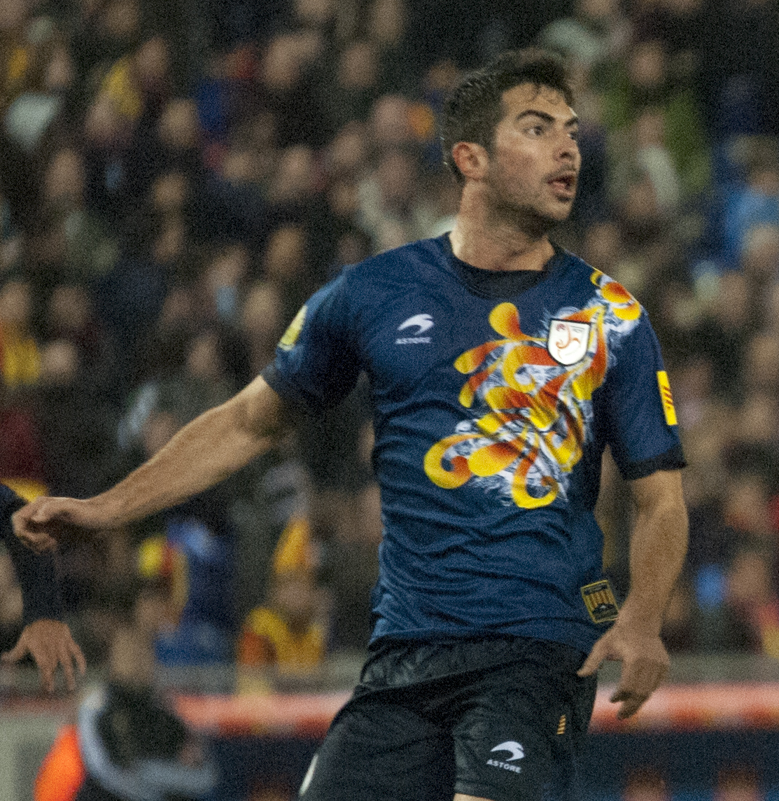 Jordi Amat during friendly match Catalonia vs. Nigeria